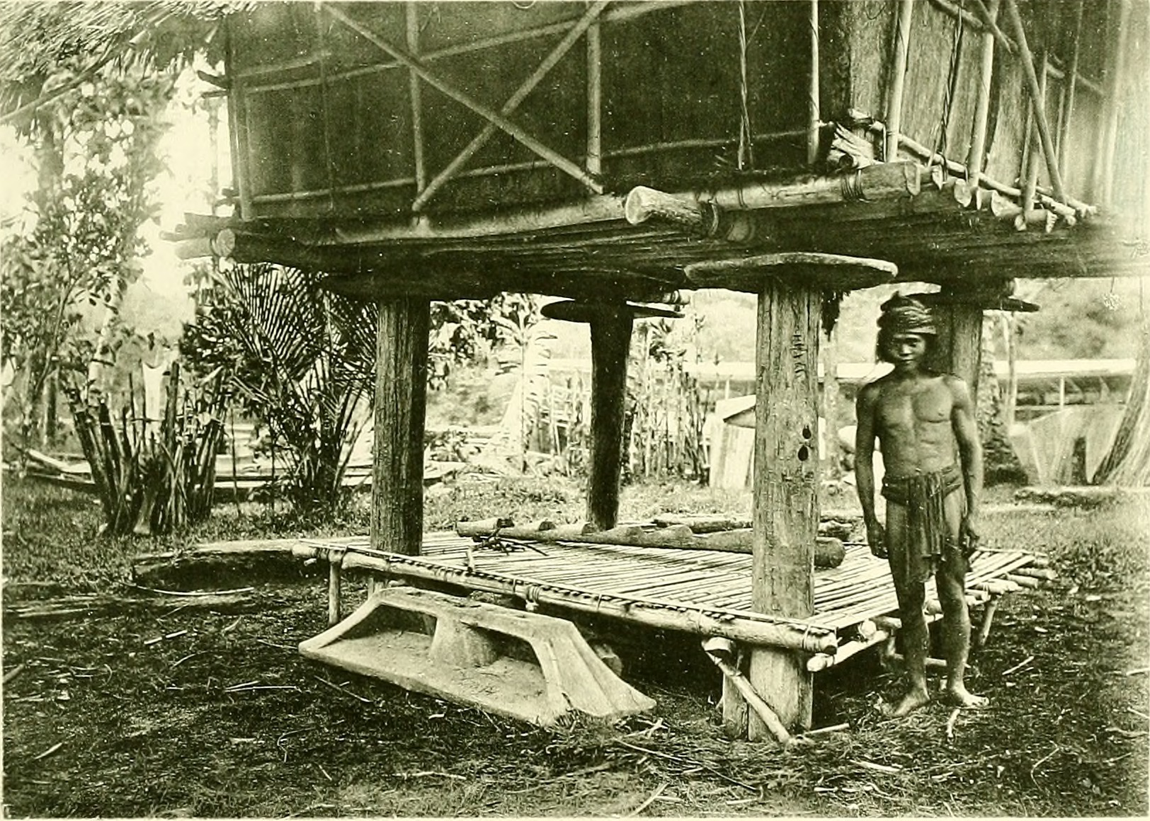 Title: Abhandlungen der Senckenbergischen Naturforschenden Gesellschaft Identifier: abhandlungenders22senc Year: 1896 (1890s) Authors: Senckenbergische Naturforschende Gesellschaft Subjects: Natural history Publisher: Frankfurt am Main, Waldemar Kramer (etc. ) Text Appearing Before Image: I. Frauen der Batu bläh. Text Appearing After Image: 72. Ein Kadayan, unter einer Reisscheuer stehend.